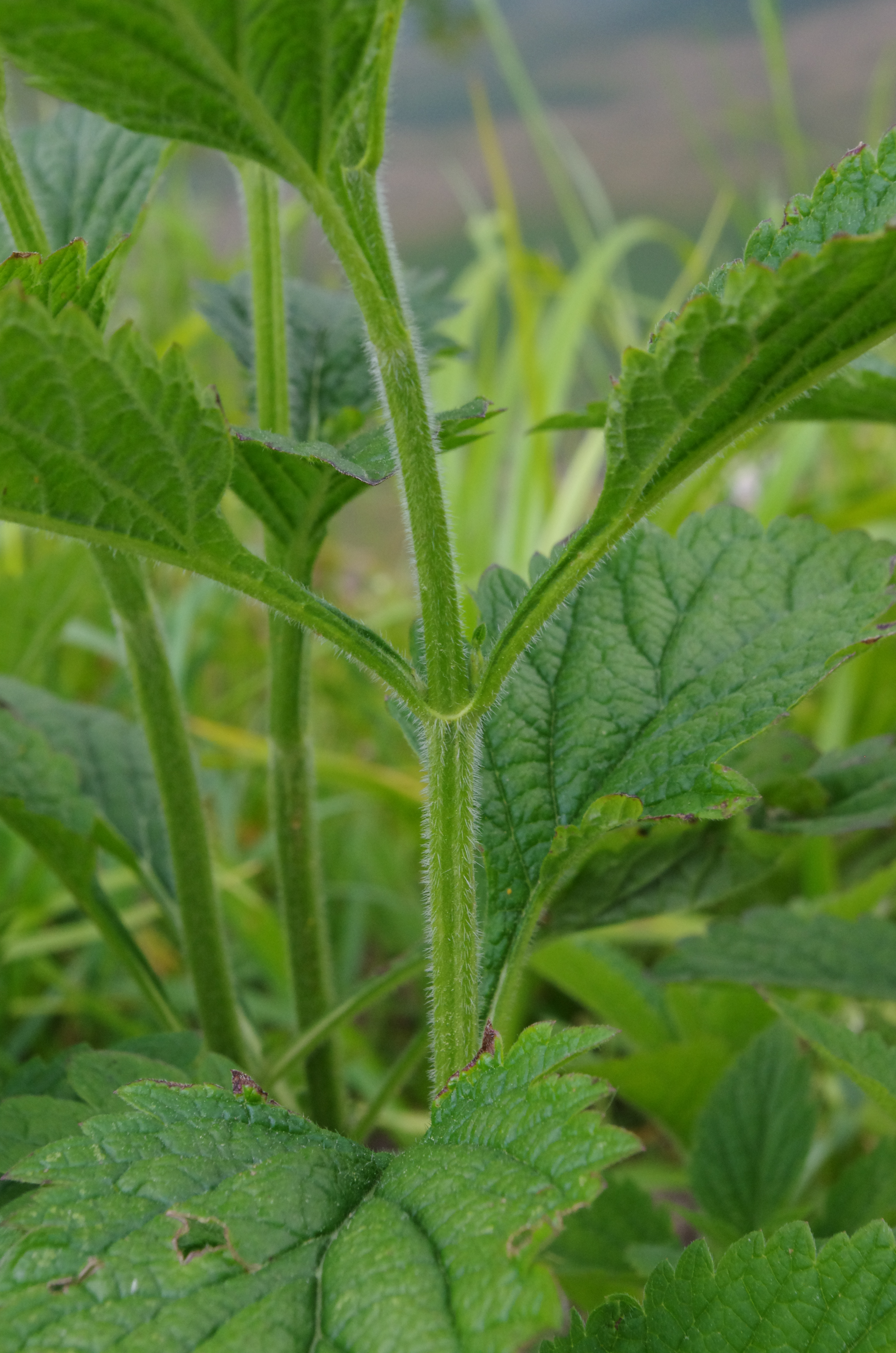 Verbena urticifolia at the ÖBG Bayreuth